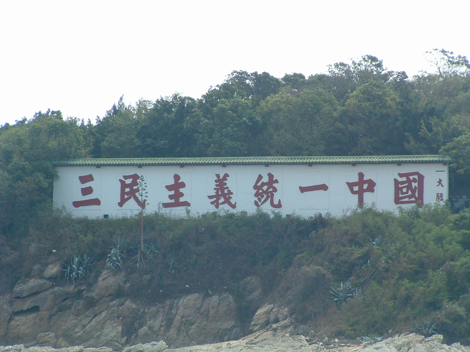 October 2003 - A propaganda sign on Kinmen facing Mainland China proclaiming "Three Principles of the People Unites China"